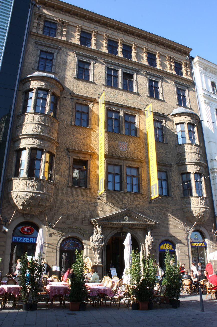 Brno, Freedom Square (Brno), Dům pánů z Lipé